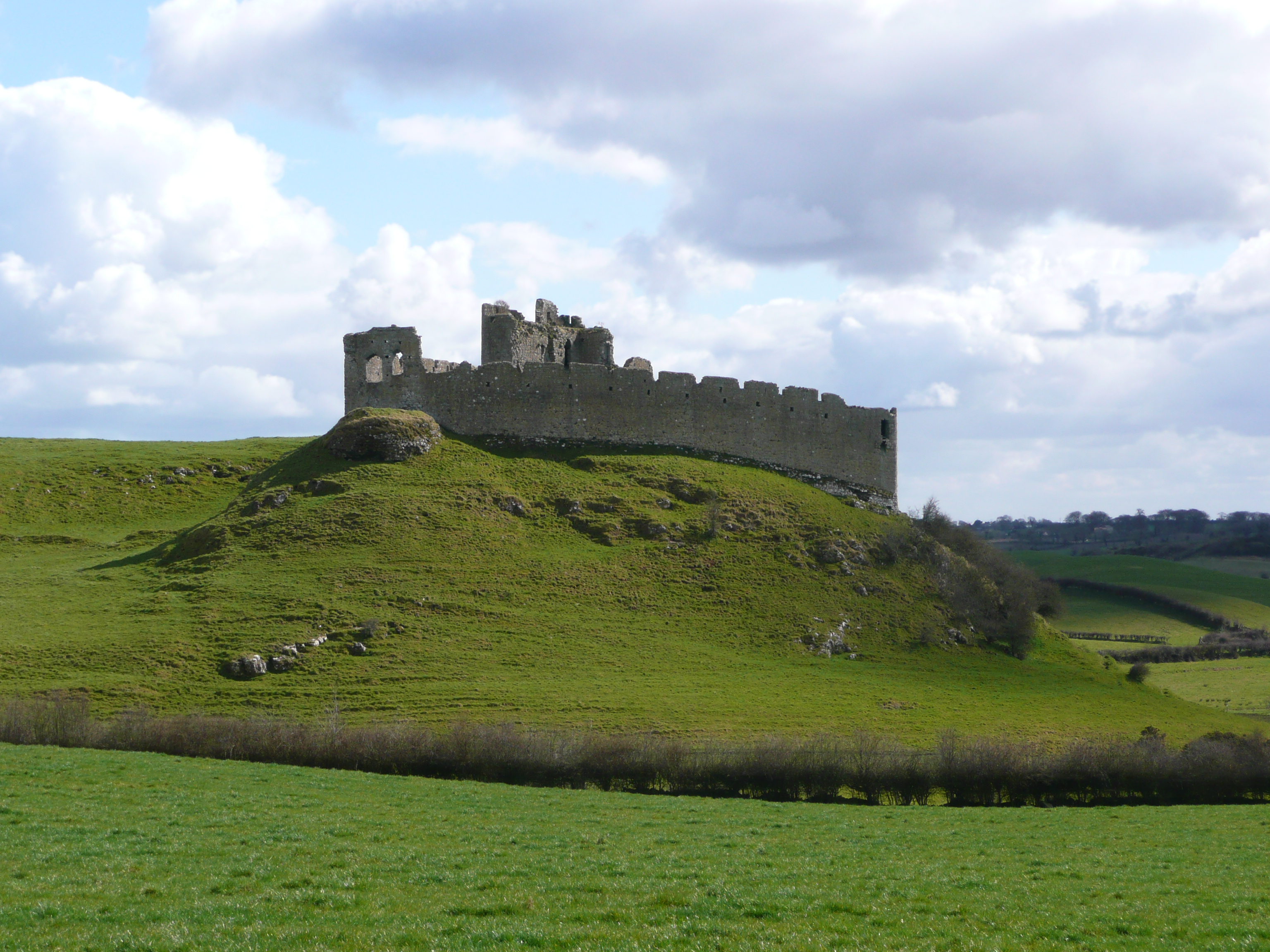 view of castle roche, co. louth, ireland, taken from the north west. this was the first look that most attackers got of this thirteenth century norman fortress